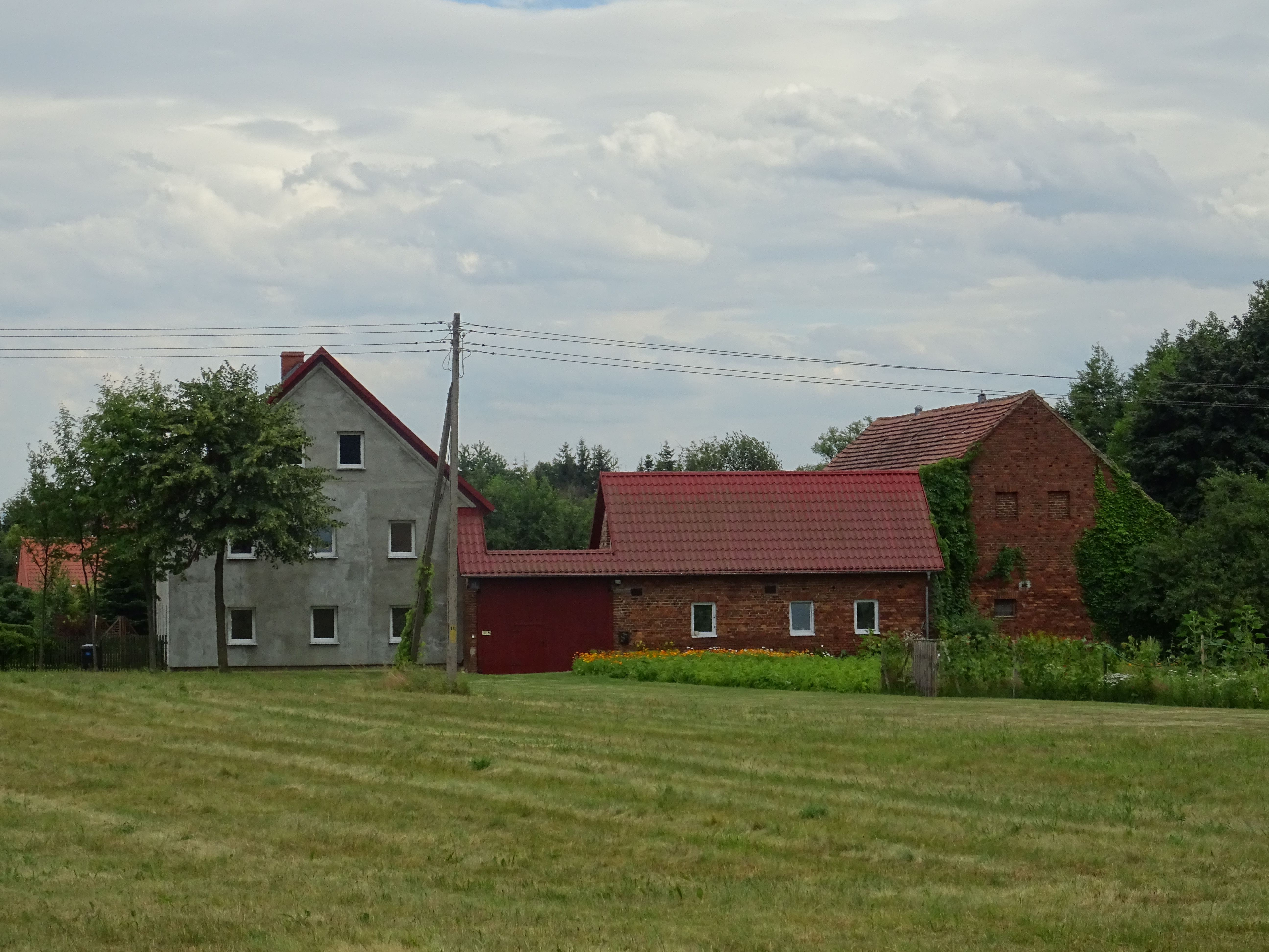 This photograph was created as a part of Wikiexpedition Lower Silesia, a project supported by Wikimedia Poland grant.